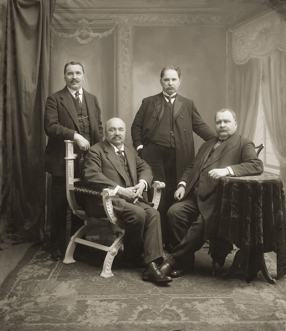 Jonas Vileišis (standing, first from left) with brothers (from left) - Petras Vileišis, Antanas Vileišis and Anupras Vileišis. Jonas Vileišis was one of the signatories of Lithuanian independence act.